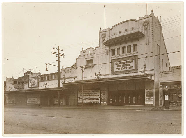 Format: Photograph Find out more about this photographic collection: .au/item/itemDetailPaged.aspx?itemID=153778 Search for more great images in the State Library's collections: .au/search/SimpleSearch.aspx From the collection of the State Library of New South Wales